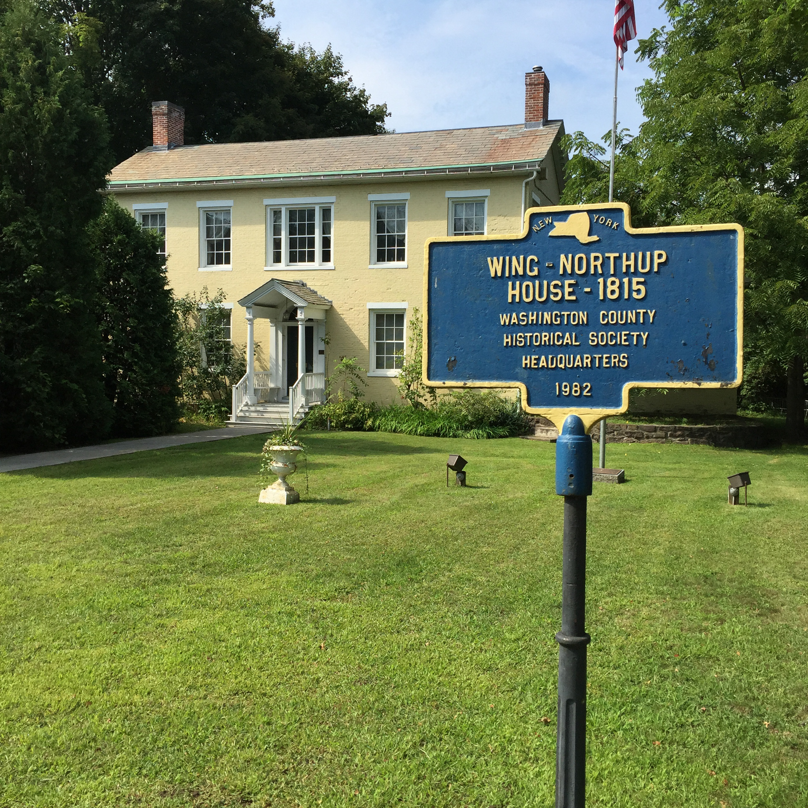 The Washington County Historical Society is housed at the Wing-Northup House on Lower Broadway in Fort Edward, New York.